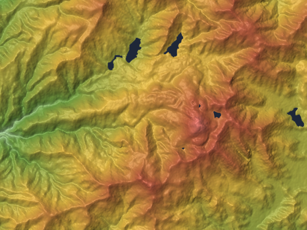 Mount Nikkō-Shirane is a volcano in the border between Tochigi and Gunma prefectures, Honshu, Japan.